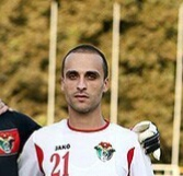 Mohammad Al-Dmeiri before football match between Jordan national football team and Syria national football team in Shahid Dastgerdi Stadium, Tehran. 2015 AFC Asian Cup qualification.